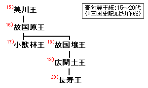 the geneology of Goguryeo( 15th King ~ 20th King) / 高句麗王系図(15代～20代)